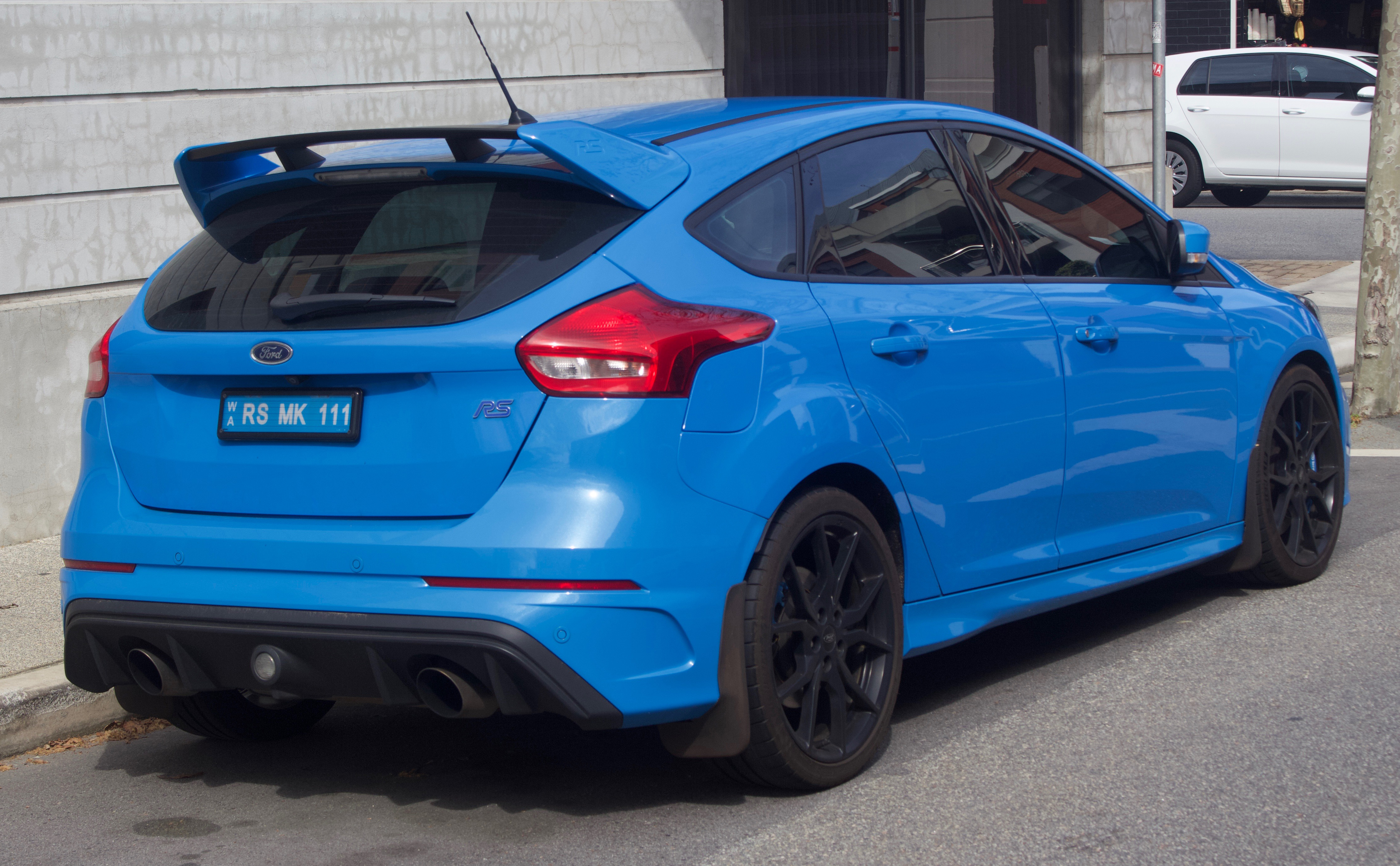 2017 Ford Focus (LZ) RS hatchback. Photographed in Fremantle, Western Australia, Australia.